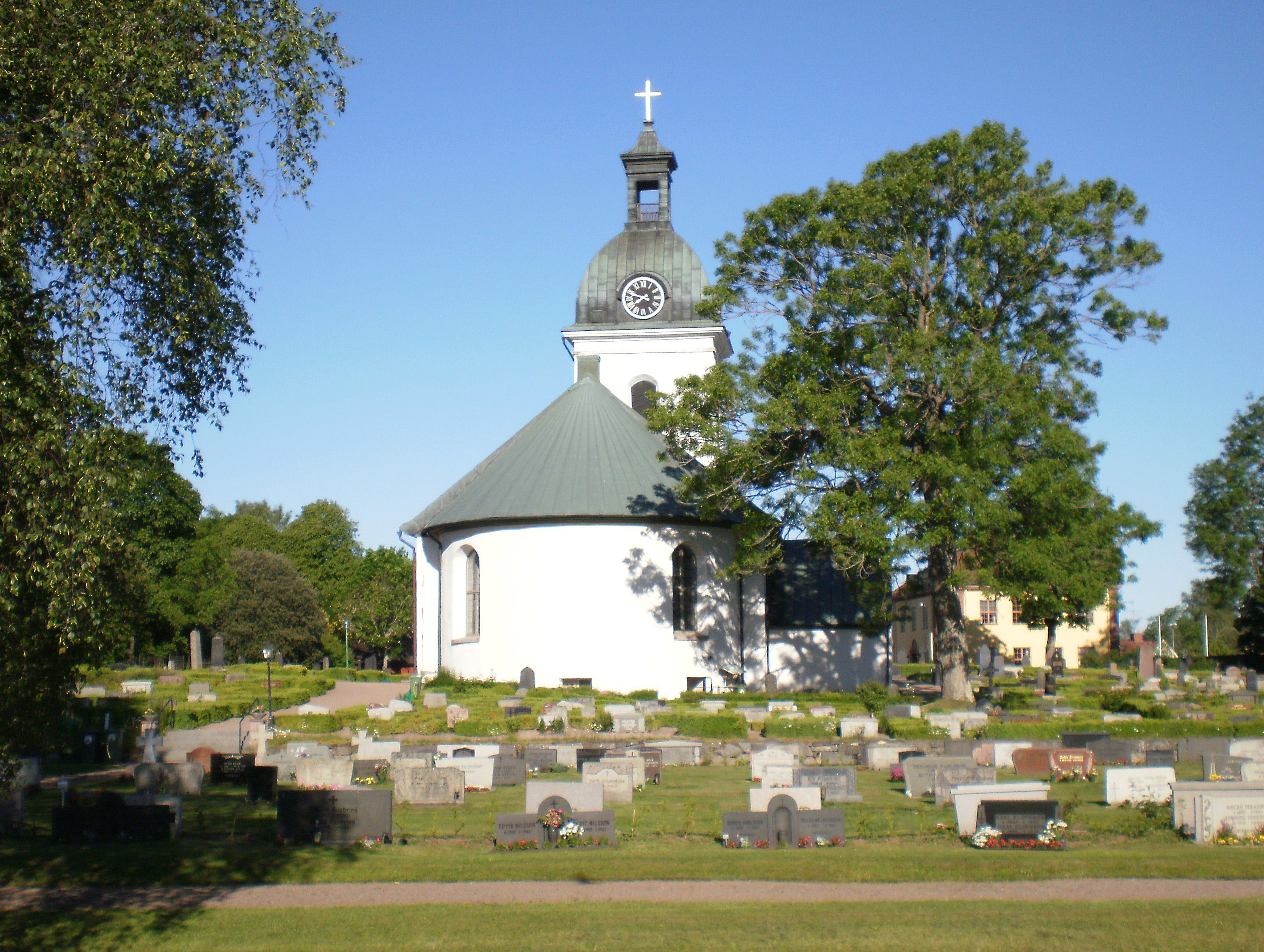 Åseda Church.The oldest part of the present Church are the sacristy, built in the 12th century. The nave was built in the late 15th century or early 16th century. During the 17th century, the church underwent exterior and interior renovations.The major renovation which gave the Church the appearance it has today took place in 1796 – 1803 after plans by Carl Fredrik Adelcrantz.